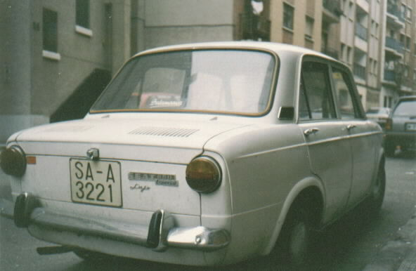 Seat 850 in Salamanca, Spain.